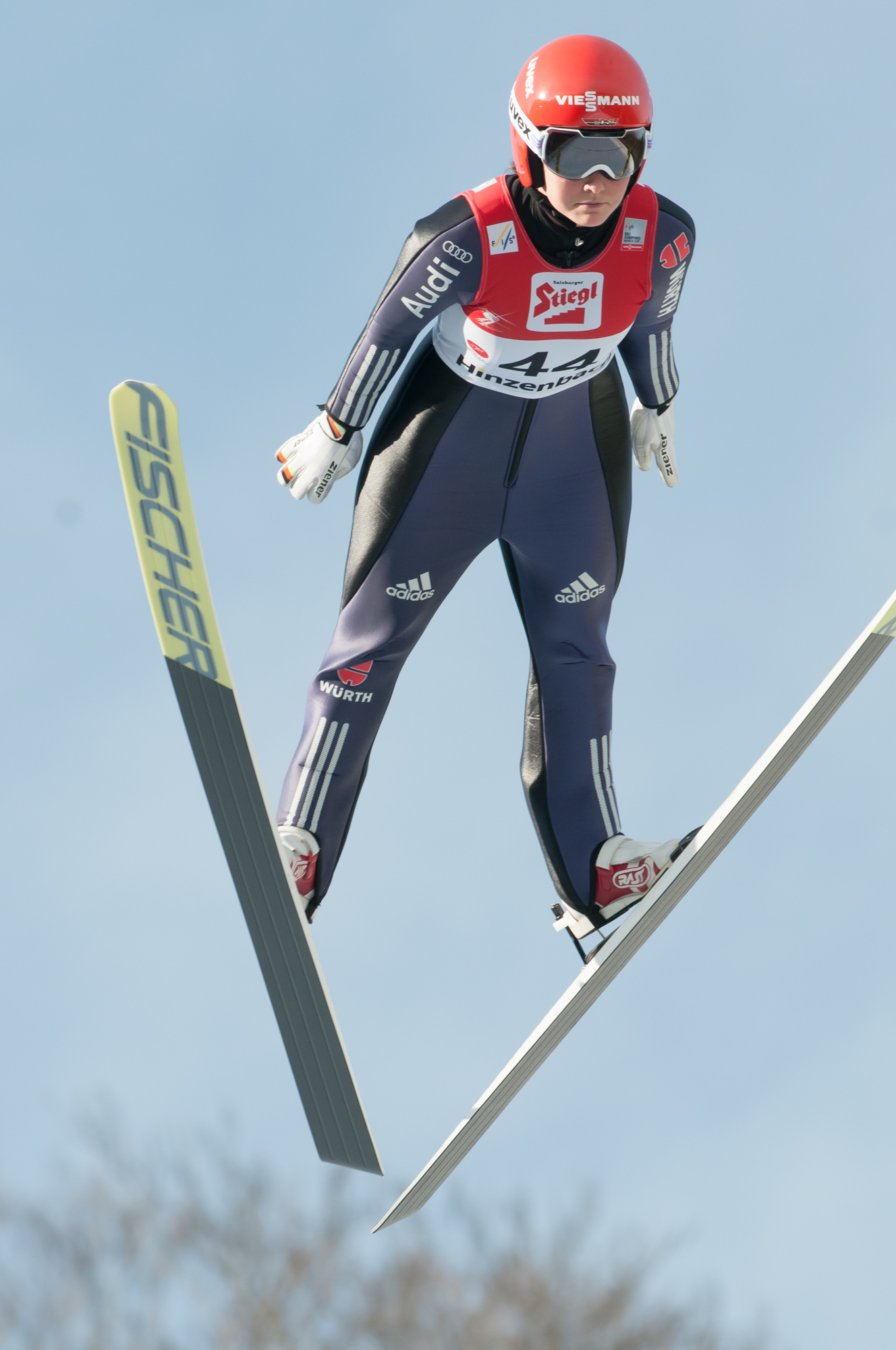 FIS Ski Jumping World Cup Ladies Hinzenbach 2016-02-07